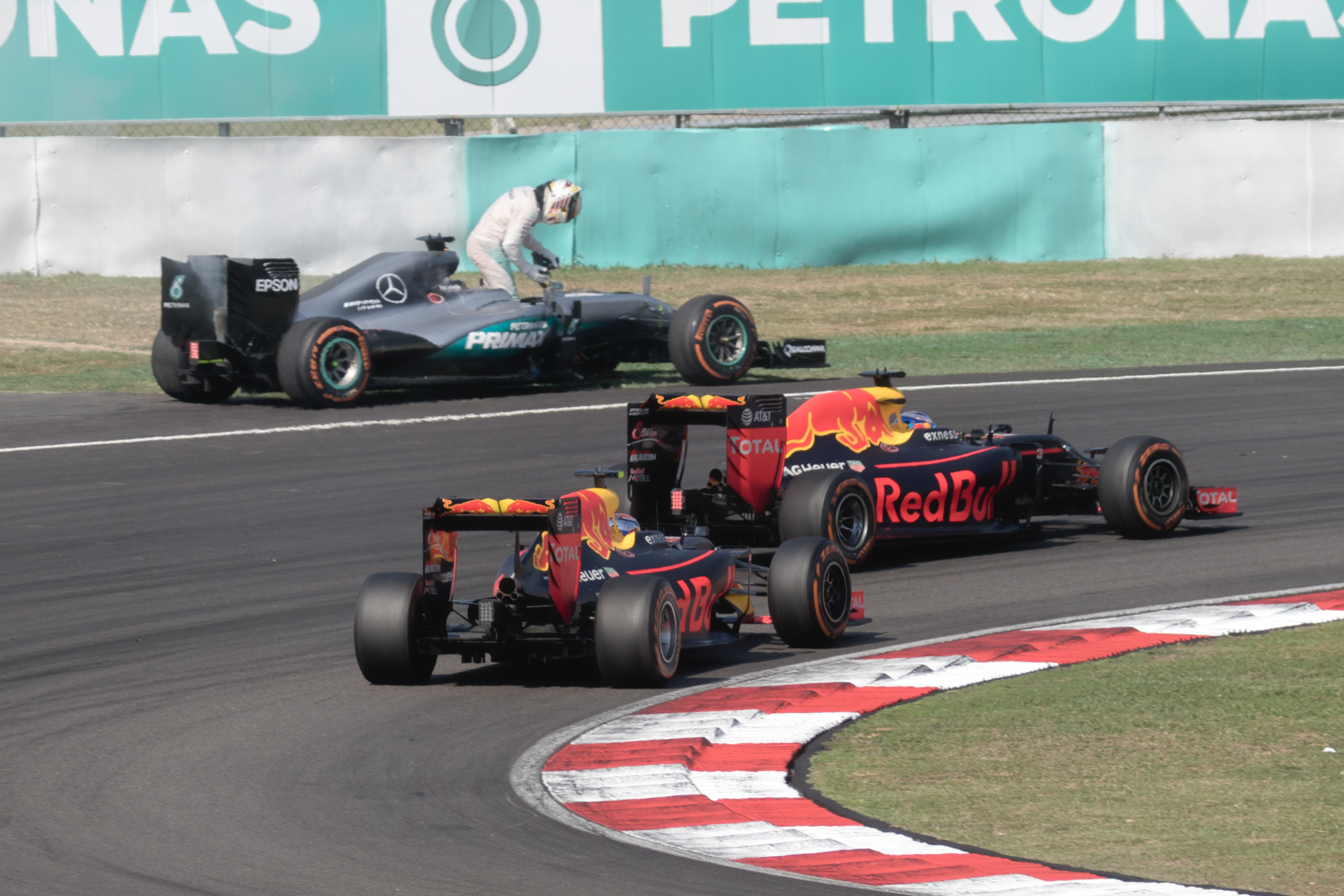 Formula One 2016 Rd.16 Malaysian GP: Daniel Ricciardo (Red Bull) and Max Verstappen (Red Bull) under virtual safety car.